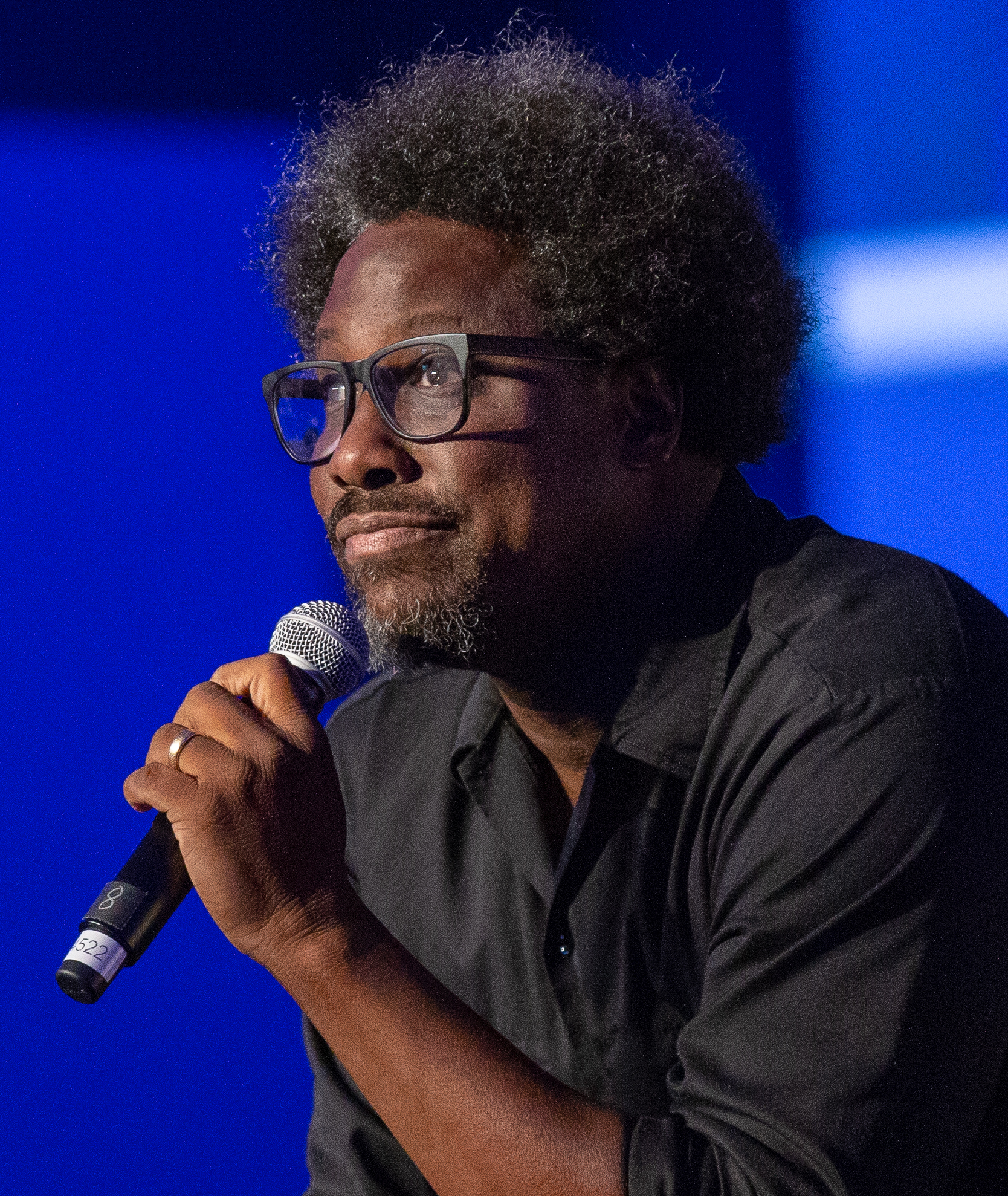 Comedian/author W. Kamau Bell delivers the opening keynote on the first day of the summit. Photos taken for work at the 3rd annual Summit on School Climate and Culture, a national conference sponsored by Des Moines Public Schools.